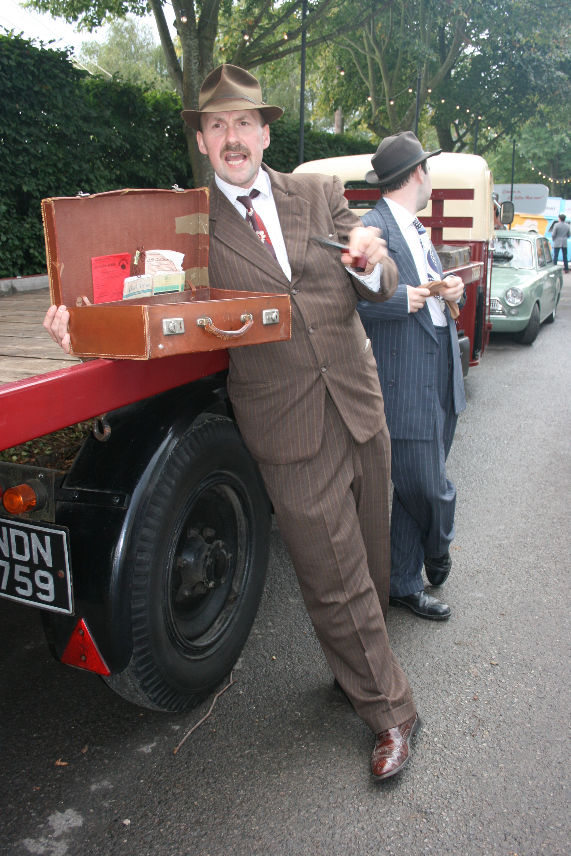 A man dressed as a historical "spiv", selling goods from the "back of a lorry".